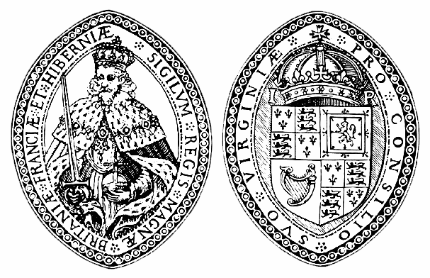 The seal of the London Company, also known as the Charter of the Virginia Company of London. The Company was an English joint stock company established by royal charter by James I on 10 April 1606 with the purpose of establishing colonial settlements in North America. It was not founded as a joint stock company, but became one under its 1609 charter. It was responsible for establishing the Jamestown Settlement, the first permanent English settlement in the present United States in 1607, and in the process of sending additional supplies, inadvertently settled the Somers Isles (present day Bermuda), the oldest-remaining English colony, in 1609. In 1624, the company lost its charter, and Virginia became a royal colony. The Latin phrase on the left oval "SIGILVM REGIS MAGNÆ BRITANIÆ FRANCIÆ ET HIBERNIÆ" means "Sign of the great king of Britain, Francia and Hibernia".